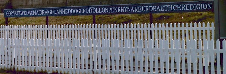 Gorsafawddacha'idraigodanheddogleddollônpenrhynareurdraethceredigion